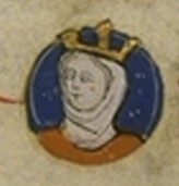 Isabella of France